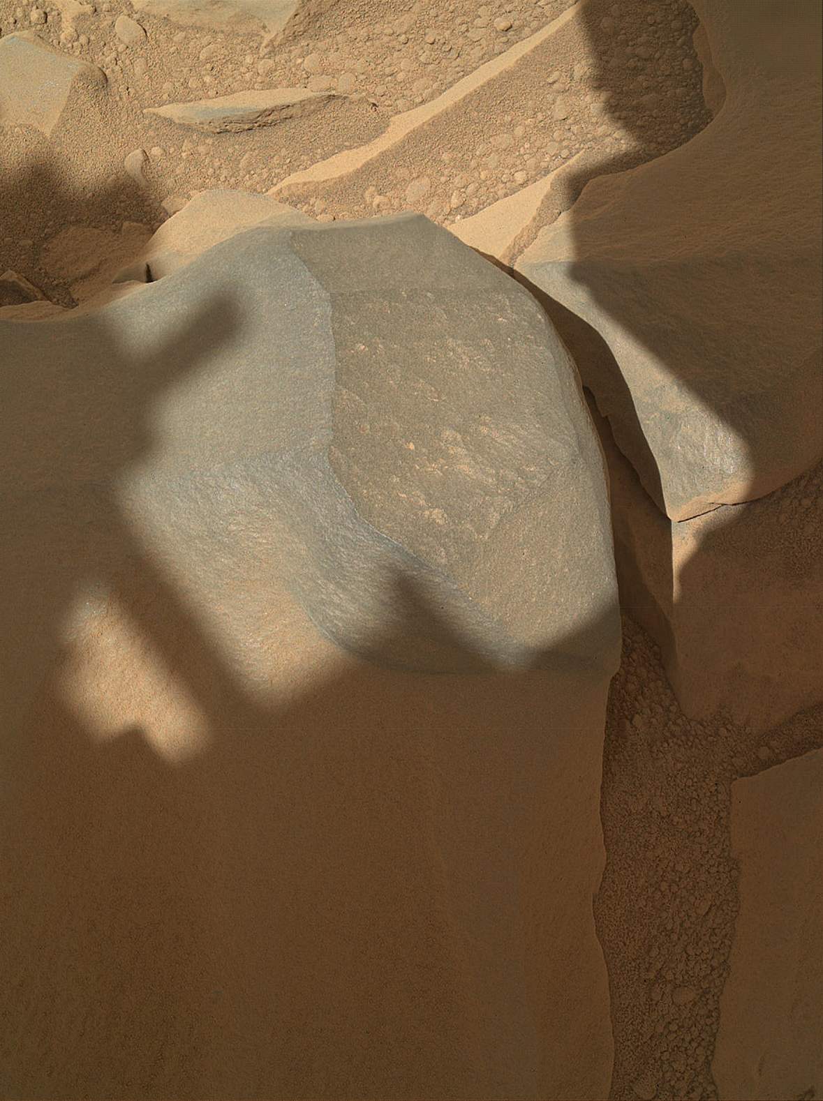 10.01.2012 'Bathurst Inlet' Rock on Curiosity's Sol 54, Context View NASA's Mars rover Curiosity held its Mars Hand Lens Imager (MAHLI) camera about 10.5 inches (27 centimeters) away from the top of a rock called "Bathurst Inlet" for a set of eight images combined into this merged-focus view of the rock. This context image covers an area roughly 6.5 inches by 5 inches (16 centimeters by 12 centimeters). Resolution is about 105 microns per pixel. MAHLI took the component images for this merged-focus view, plus closer-up images of Bathurst Inlet, during Curiosity's 54th Martian day, or sol (Sept. 30, 2012). The instrument's principal investigator had invited Curiosity's science team to "MAHLI it up!" in the selection of Sol 54 targets for inspection with MAHLI and with the other instrument at the end of Curiosity's arm, the Alpha Particle X-Ray Spectrometer. A merged-focus MAHLI view from closer to the rock, providing even finer resolution, is at . The Bathurst Inlet rock is dark gray and appears to be so fine-grained that MAHLI cannot resolve grains or crystals in it. This means that the grains or crystals, if there are any at all, are smaller than about 80 microns in size. Some windblown sand-sized grains or dust aggregates have accumulated on the surface of the rock but this surface is clean compared to, for example, the pebbly substrate below the rock (upper left and lower right in this context image). MAHLI can do focus merging onboard. The full-frame versions of the eight separate images that were combined into this view were not even returned to Earth -- just the thumbnail versions. Merging the images onboard reduces the volume of data that needs to be downlinked to Earth. Image Credit: NASA/JPL-Caltech/Malin Space Science Systems